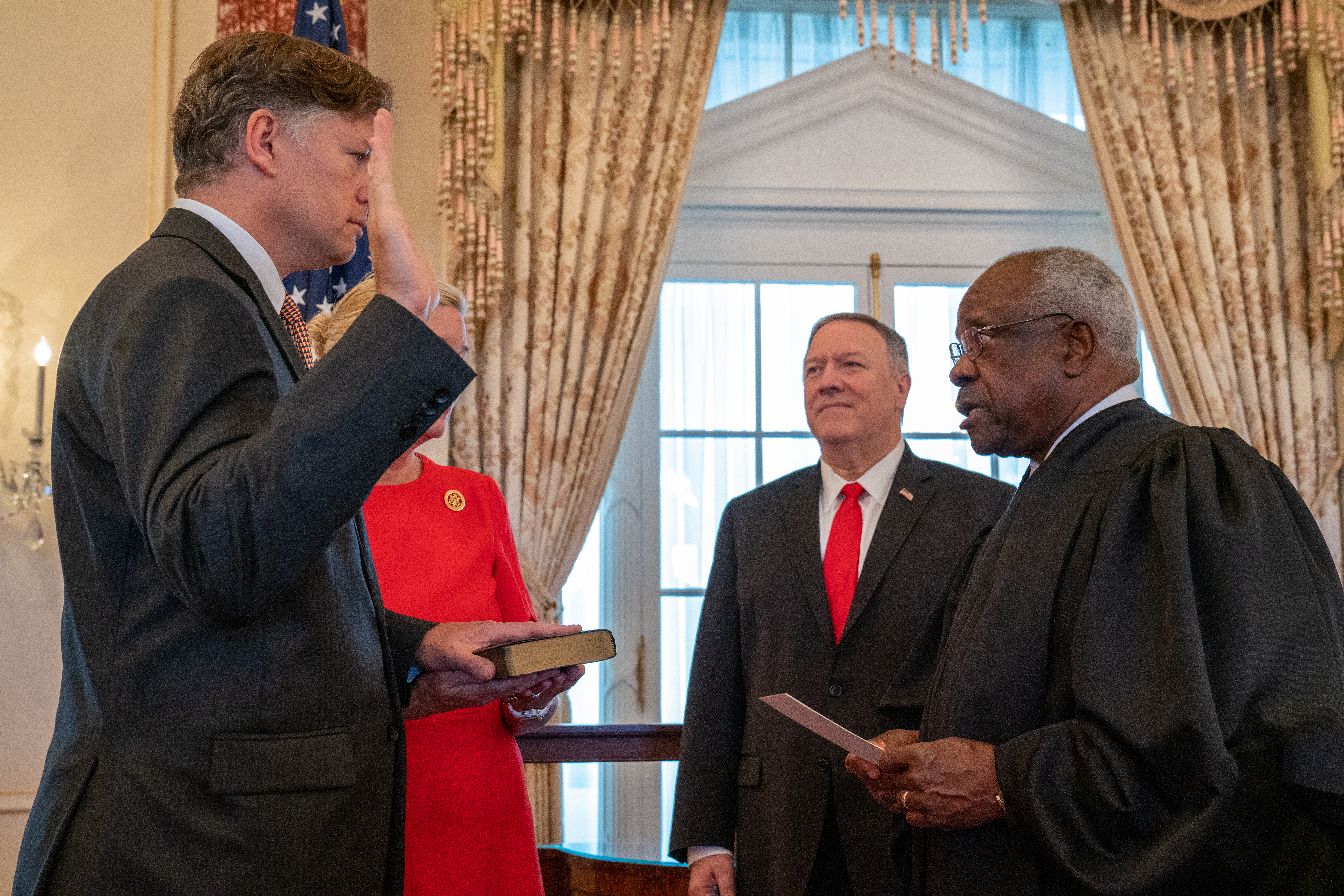 U.S. Secretary of State Michael R. Pompeo Participates in the Swearing in of U.S. Ambassador to Mexico Christopher Landau on September 13, 2019 at the Department of State